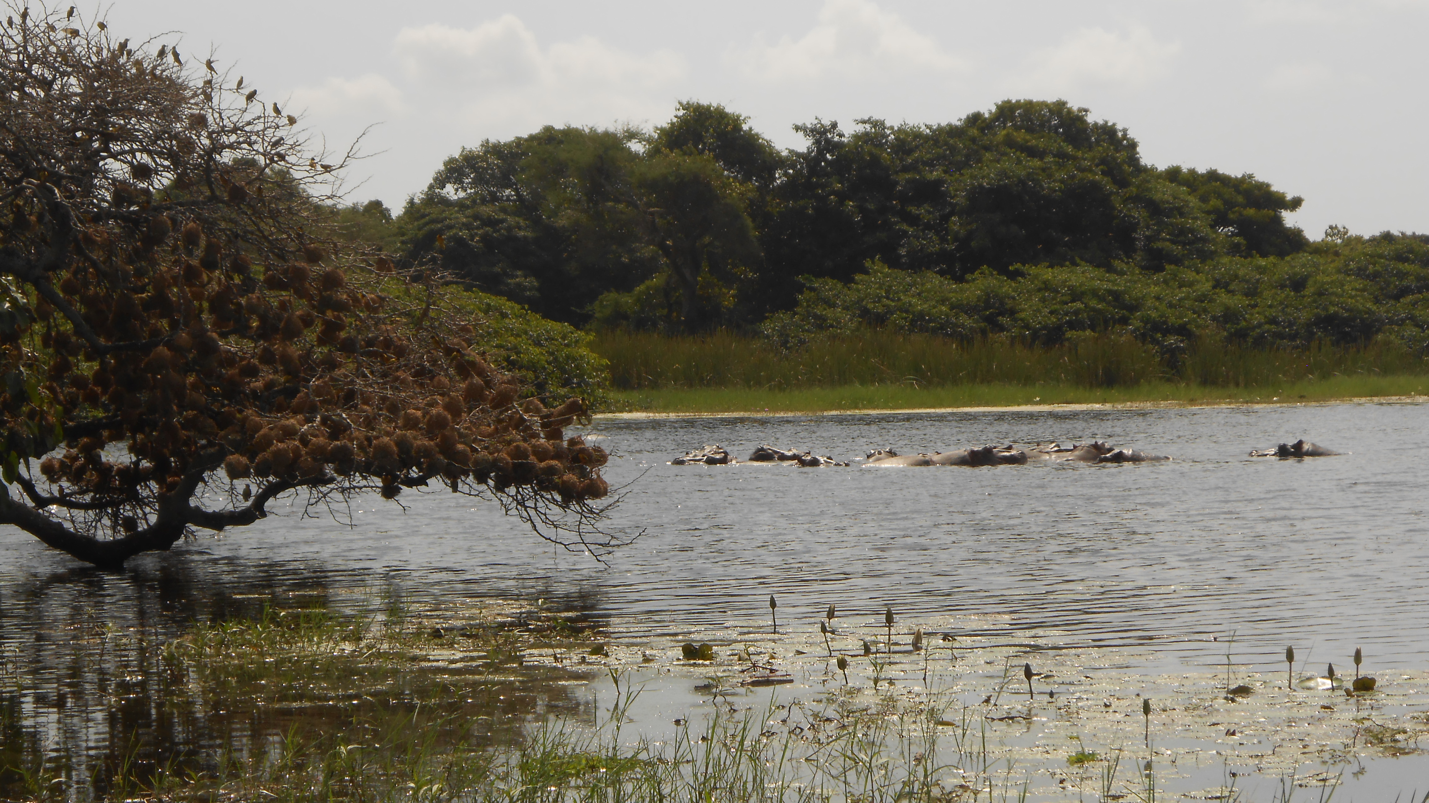 Lake on the island of Orango with rare hippopotamuses living both in sweet water and the sea.